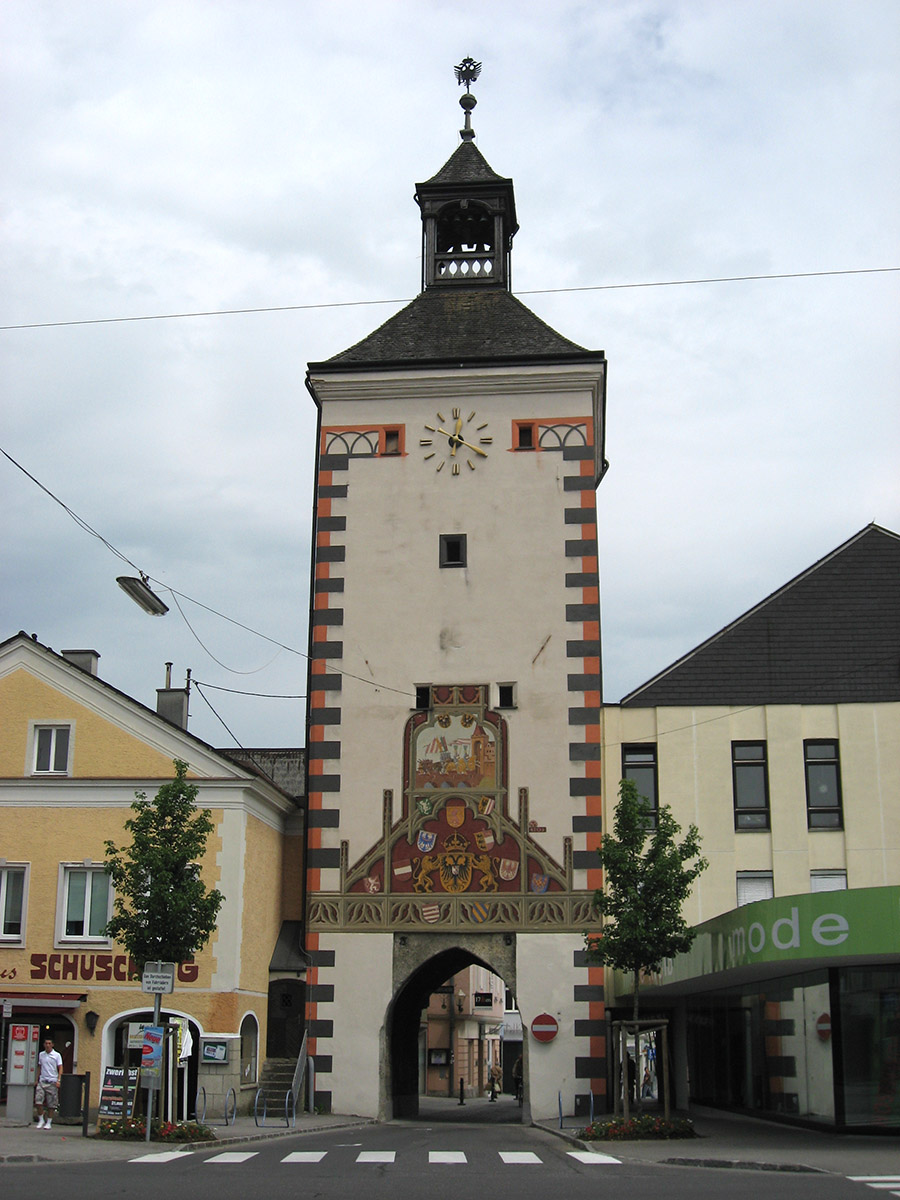 Sights of Vöcklabruck in Upper Austria, here the Upper City Tower (Oberer Stadtturm)